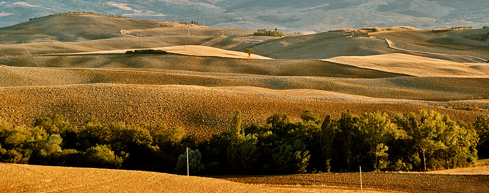 Landscape around Pienza